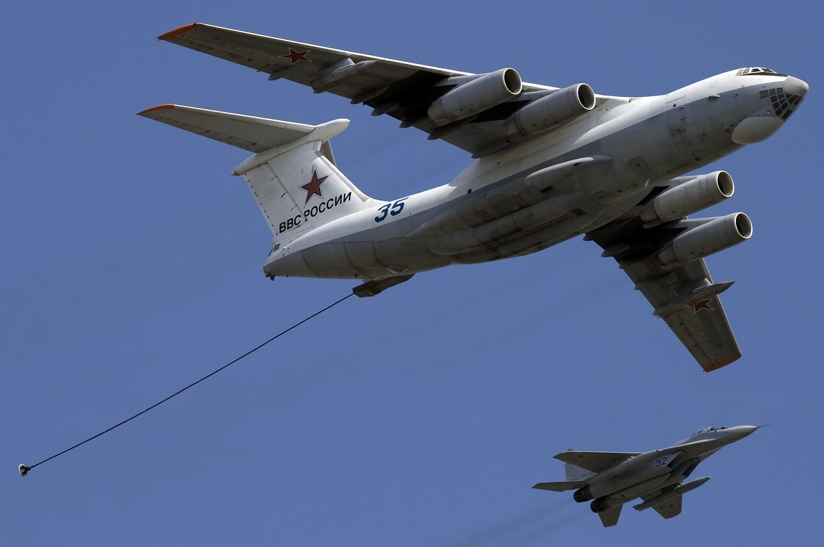 Russian Air Force Ilyushin Il-78M